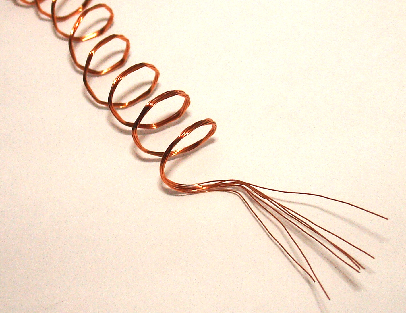 Litz wire, 8 strands